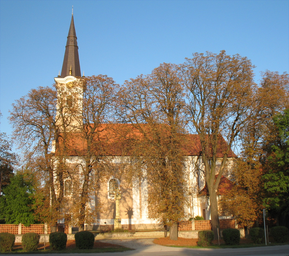 Church of TomášikovoSlovenčina: Kostol v Tomášikove